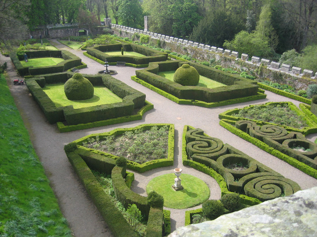 Chillingham Castle Garden, Northumberland